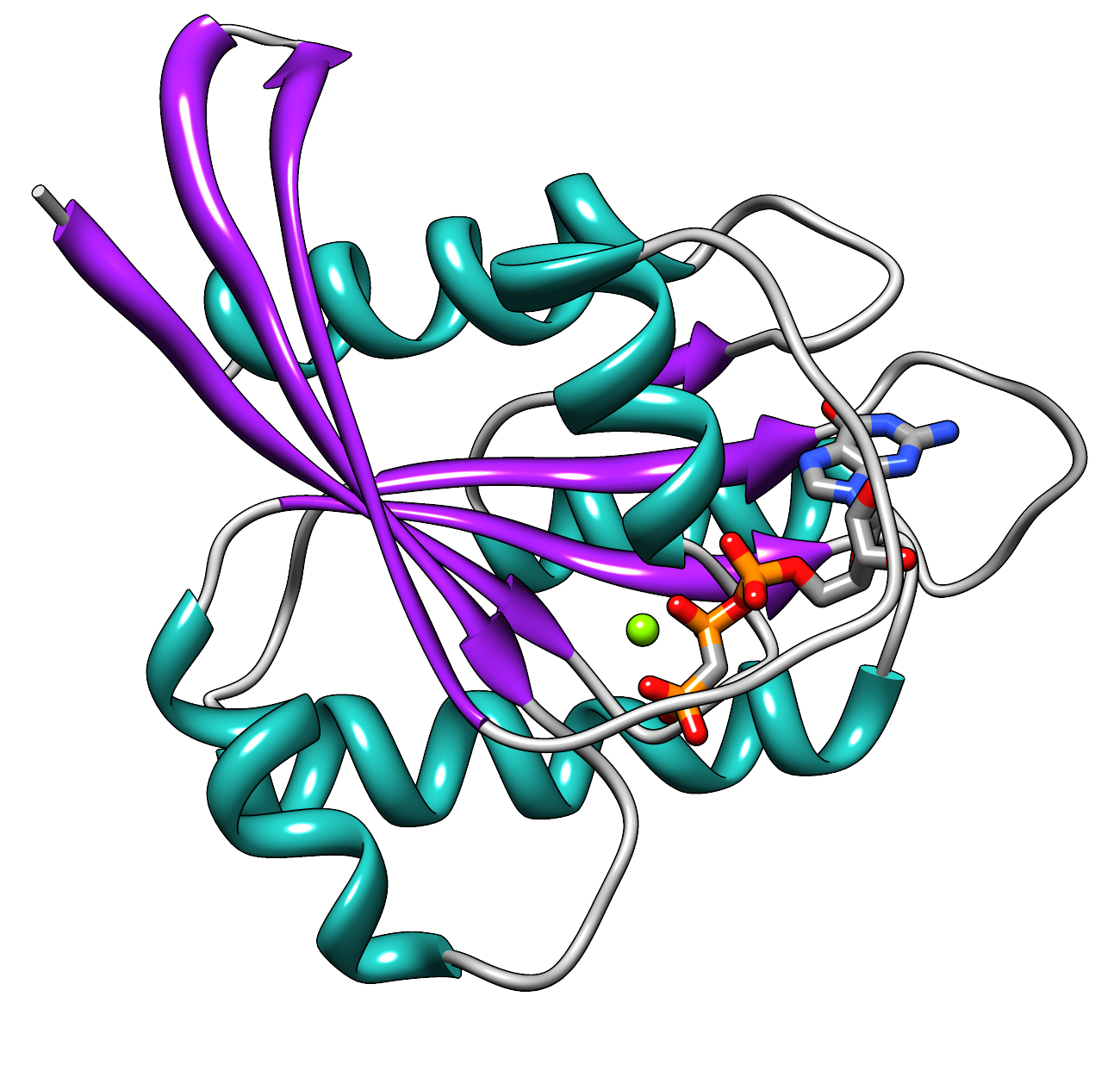 Ribbon diagram of H-ras, PDB ID 121p, generated with UCSF Chimera. Strands are purple, helices aqua, loops gray. Also shown are the bound ligand (GTP analog) and magnesium ion. UCSF Chimera development is funded by the NIH (grant P41-RR01081).